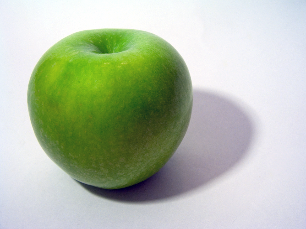 Green Apple, Granny Smith